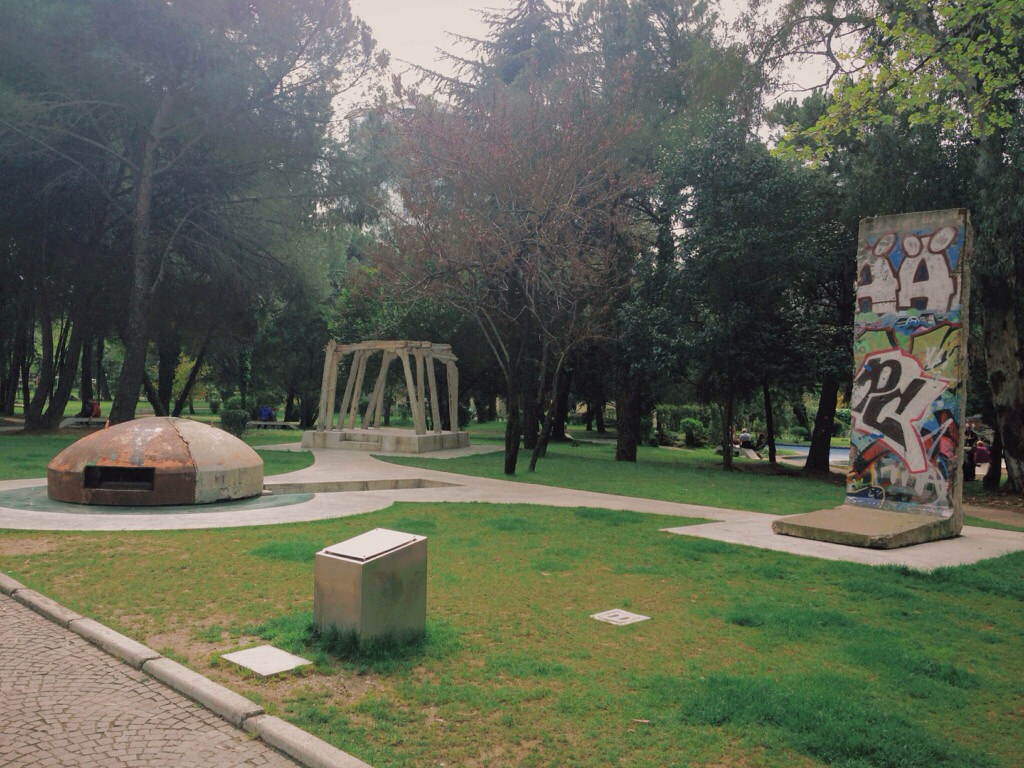 Tirana Park